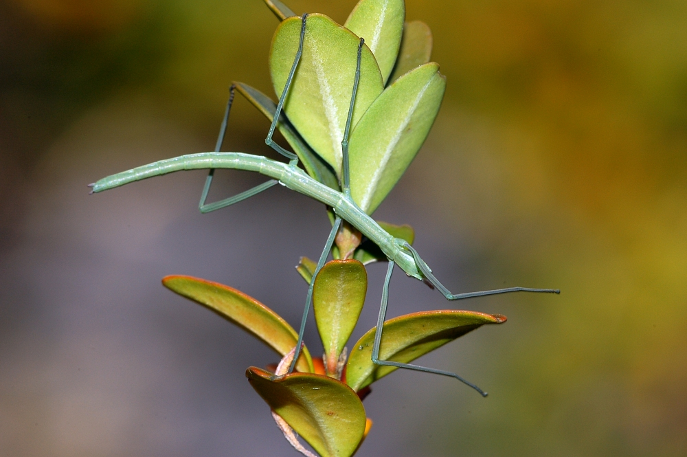 Spanish Walking Stick (Leptynia hispanica), Le Caylar, Languedoc-Roussillon, France